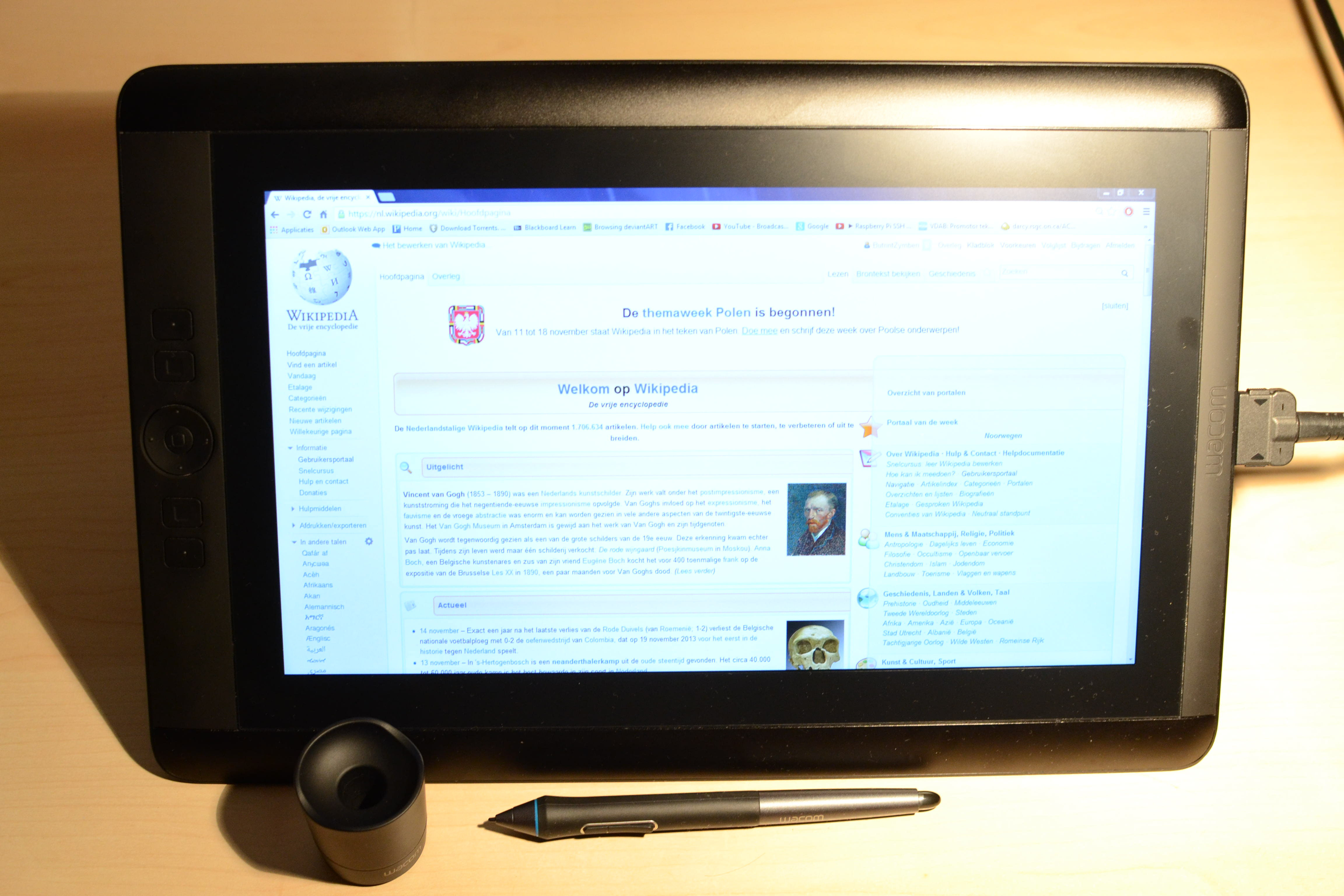 Wacom Cintiq 13HD met stylus en pen houder.